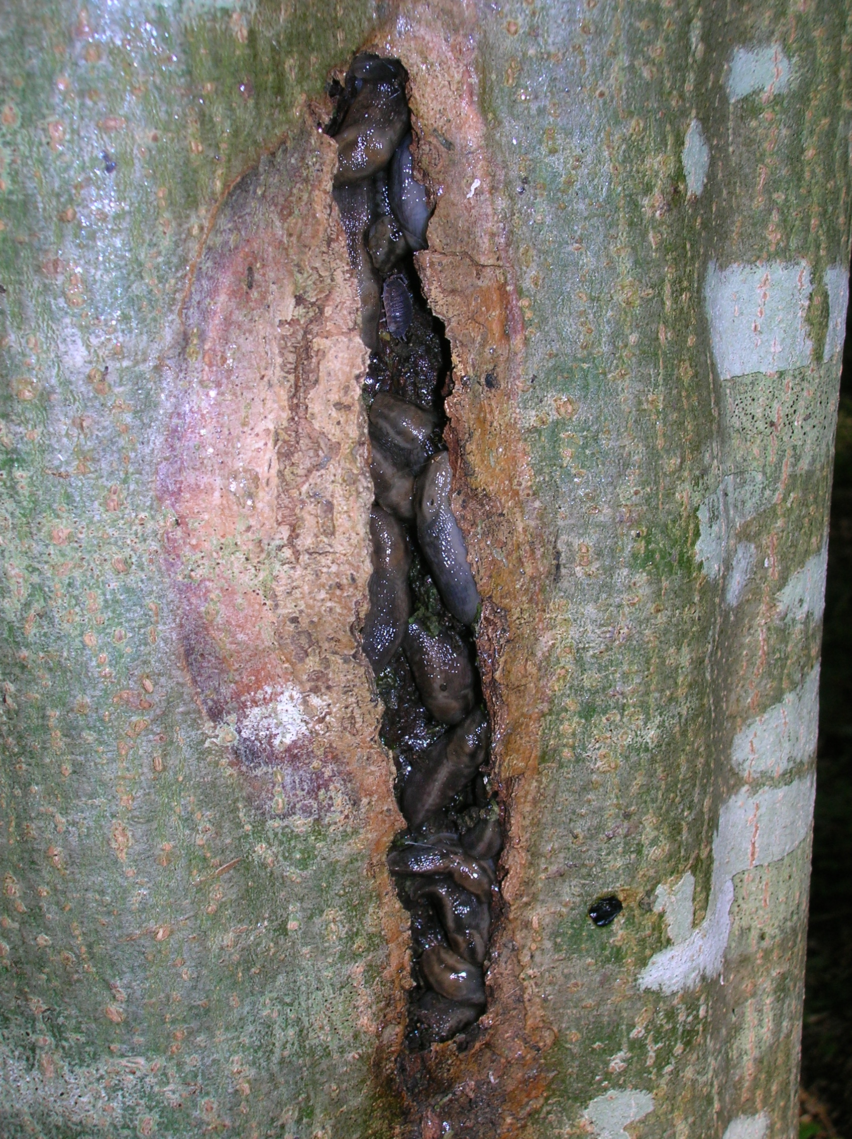 A Sun Scald fissure with dormant slugs Lehmannia sp. (family Limacidae). Eglinton, North Ayrshire, Scotland.